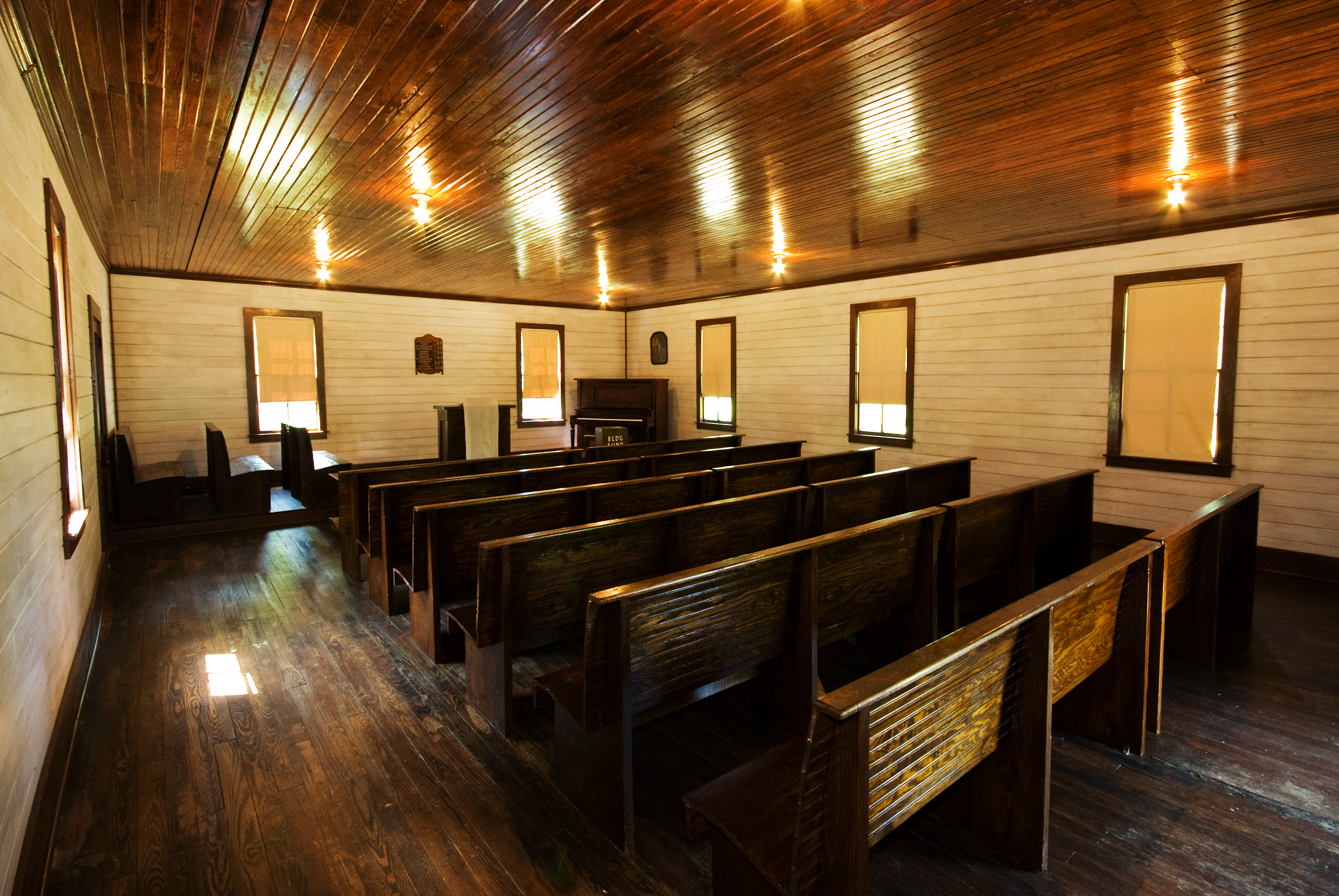 Interior view of Assembly of God Church, Tupelo, Mississippi